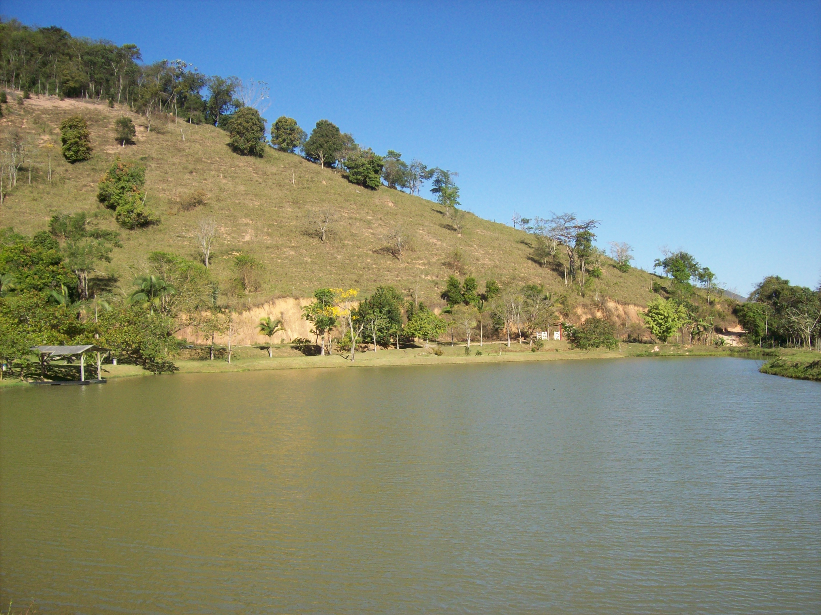 Lake of the Serra's inn, in Antônio Dias, Minas Gerais, Brazil.